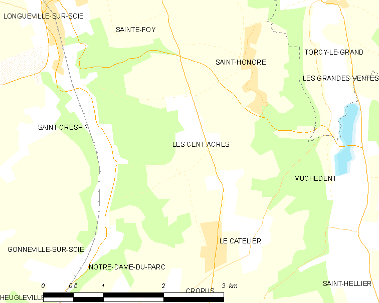 Map of French municipality Les Cent-Acres